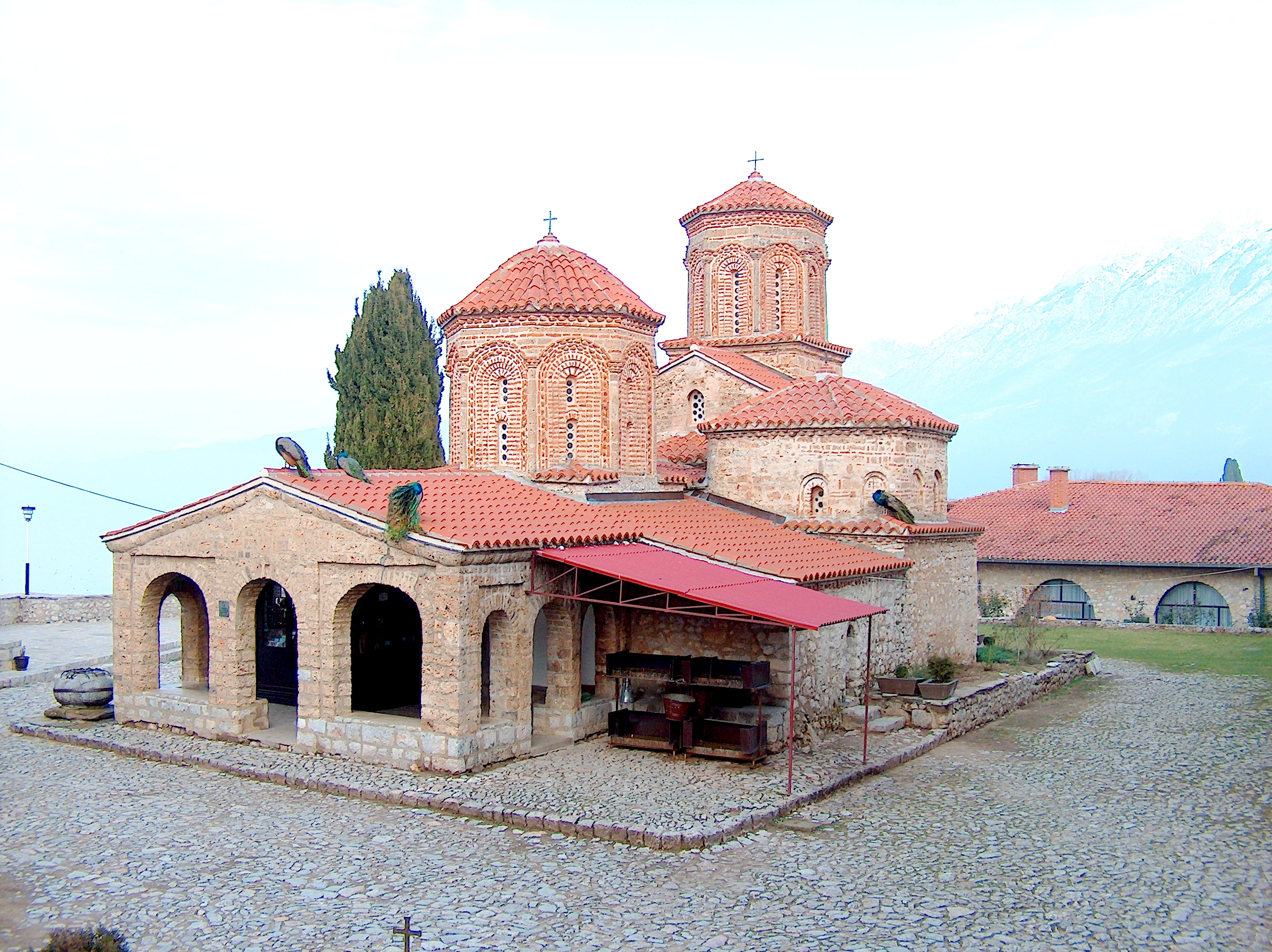 The Church at St. Naum Monastery, Republic of Macedonia